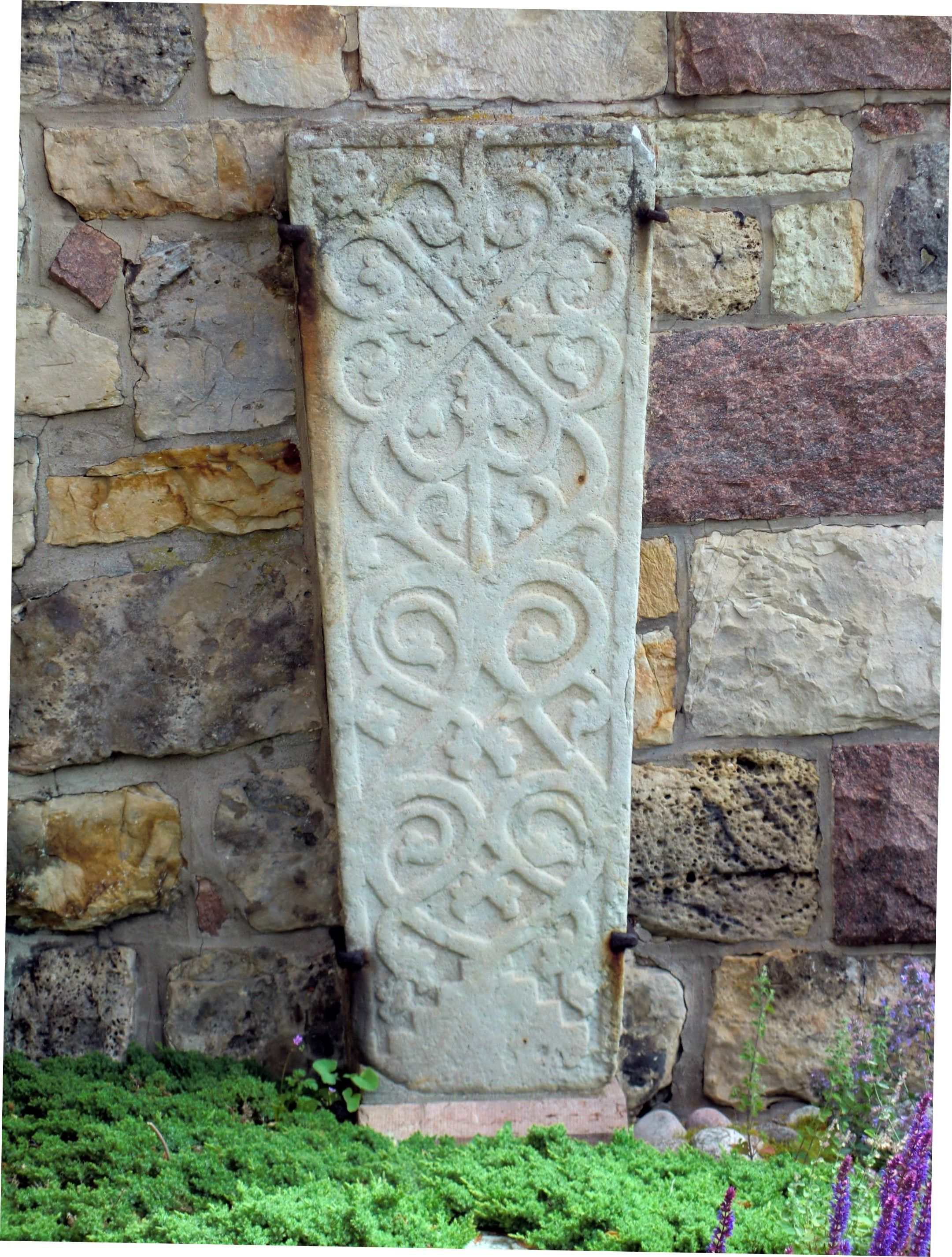 Treee of life slab from Björsäter parish church, Mariestad, Sweden. The pattern of the stone has a Kotshanak cross on the top.